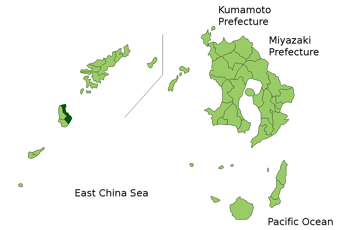 Location Map of Tokunoshima in Kagoshima Prefecture, Japan